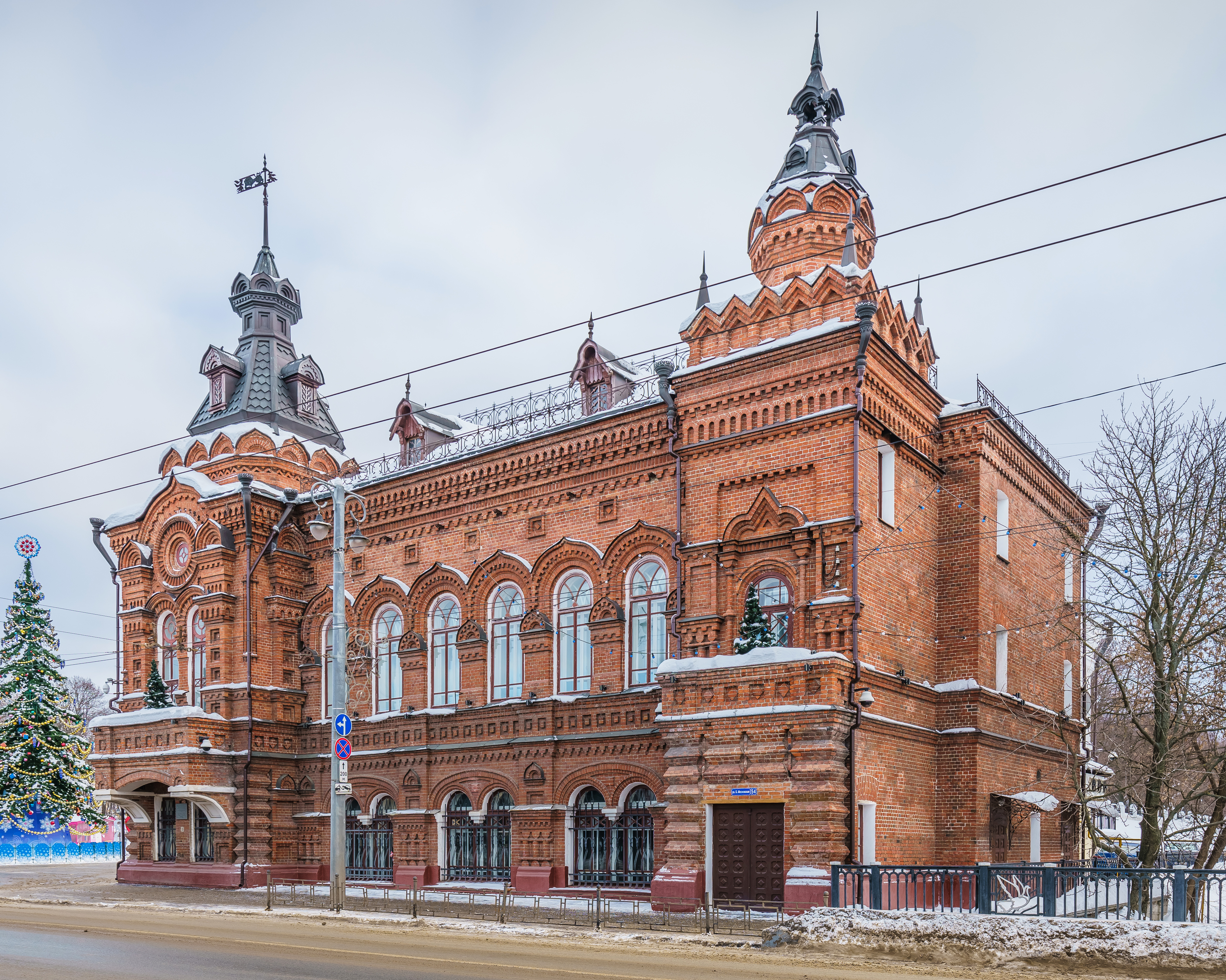 Former City Duma in Vladimir, Russia